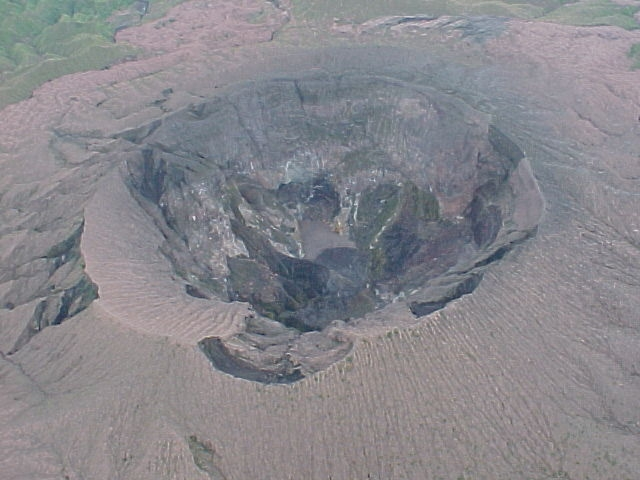 Crater of very active volcano